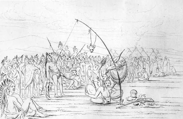 Indian Sun Dance. Native American Sioux Sun Dance, a man with his chest skin attached, with sinew, to a pole, drummers, and spectators. Title hand-written on back of book page engraving; "G. Catlin," and "97" printed with illustration. Engraving of a George Catlin drawing.